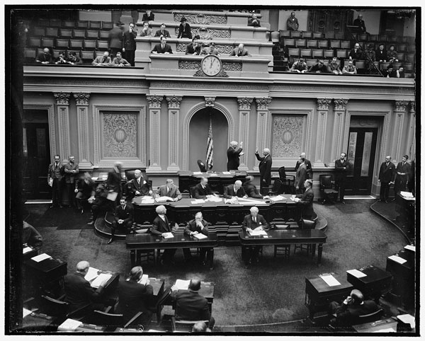 Newly re-elected United States Senator from Oklahoma Elmer Thomas takes the oath of office in January 1939 at the central rostrum in the Senate chamber at the U.S. Capitol building in Washington, D.C.. Then-Vice President John N. Garner is administering the oath.